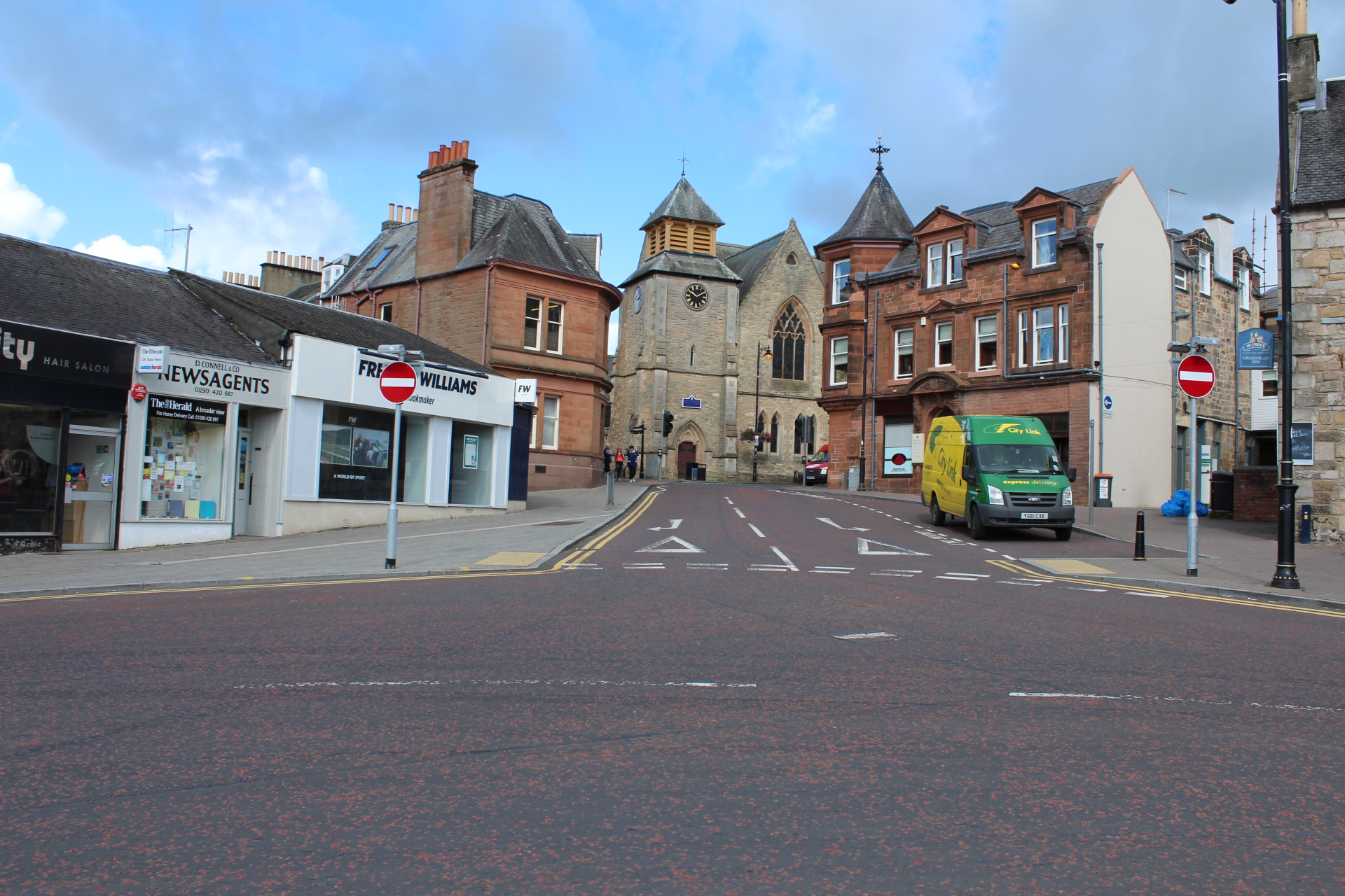 Glaisnock Street, Cumnock